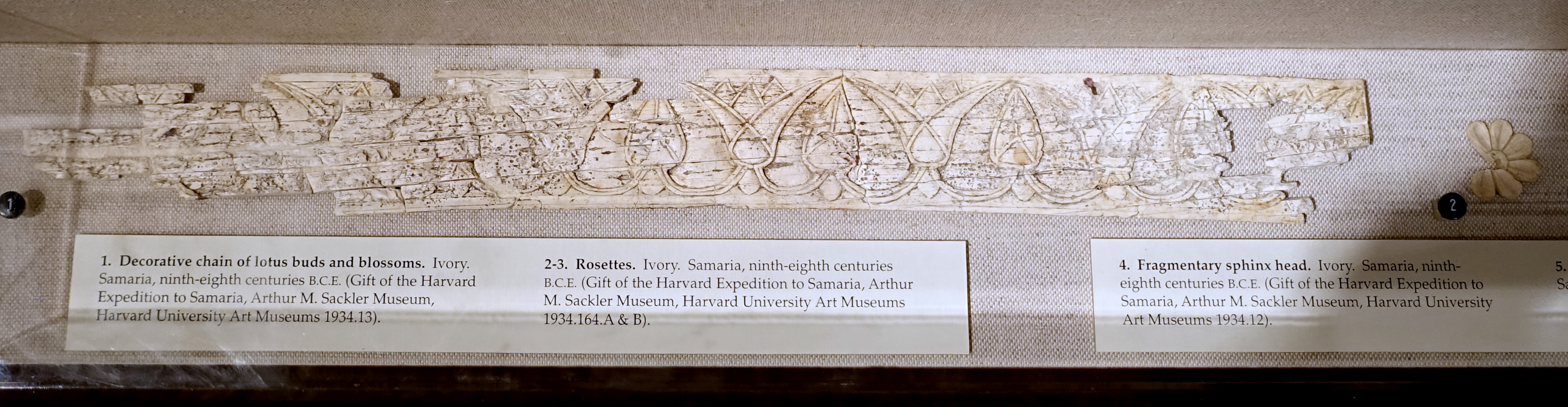 Exhibit in the Harvard Semitic Museum, Harvard University - Cambridge, Massachusetts, USA. This work is old enough so that it is in the public domain.